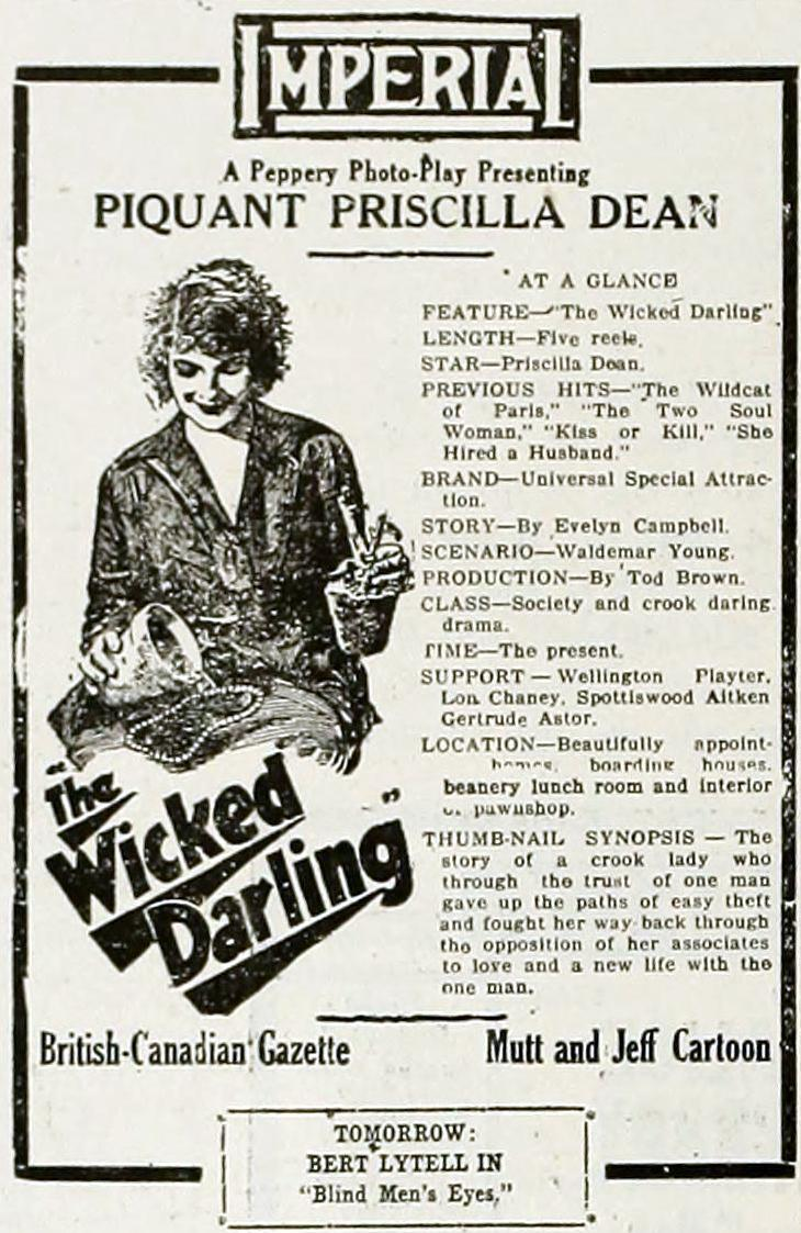 Ad for the American film The Wicked Darling (1919) with Priscilla Dean, on page 1060 of the August 2, 1919 Motion Picture News.